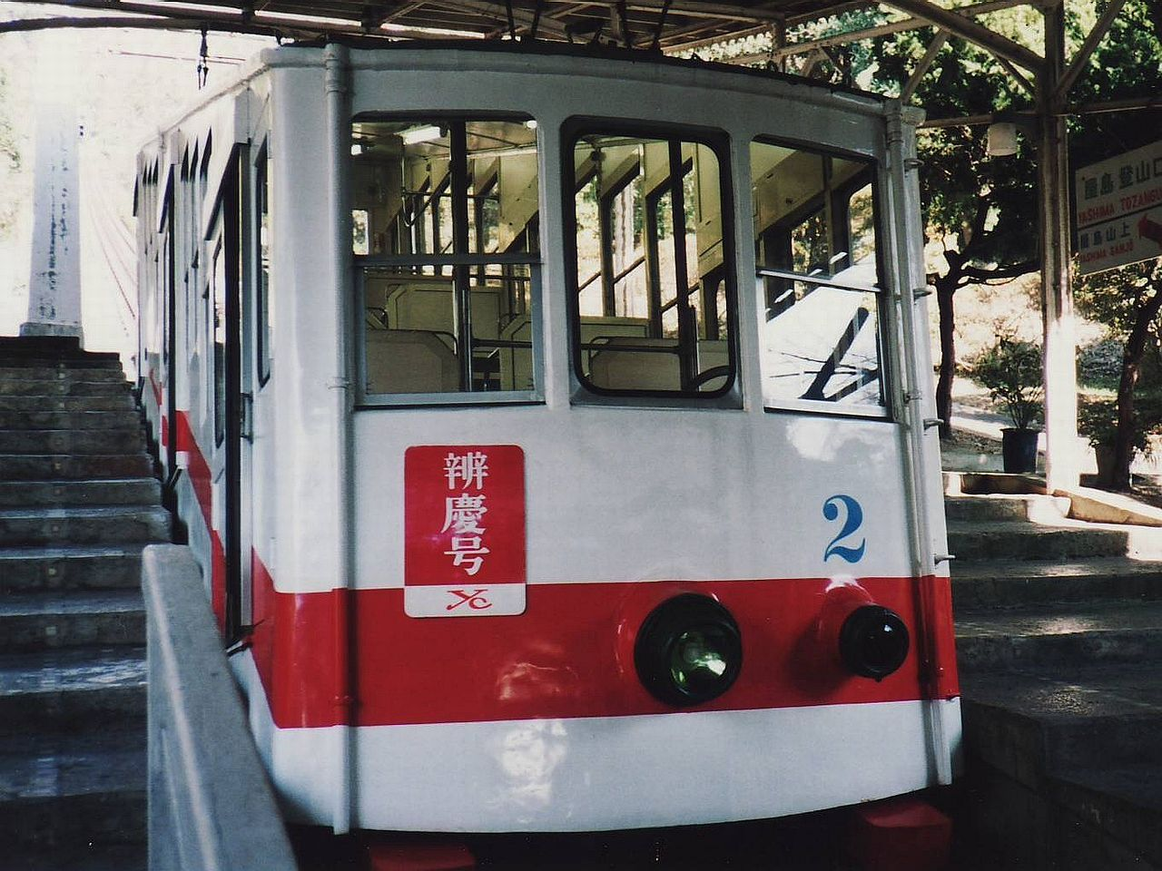 Yashima Cable car No.2 Benkei-go at Yashima-tozanguchi Station in Takamatsu City, Kagawa Prefecture, Japan. Scanned from a negative color print